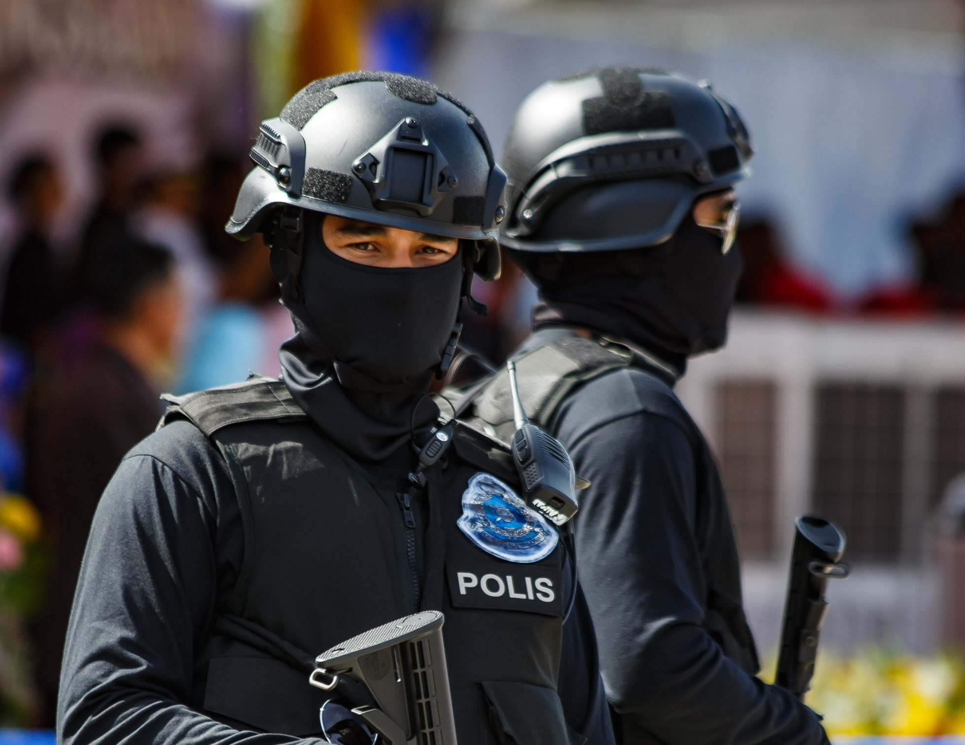 Kota Kinabalu, Sabah, Malaysia: Parade during Celebrations of Hari Merdeka 2013 in Likas on August 31, 2013